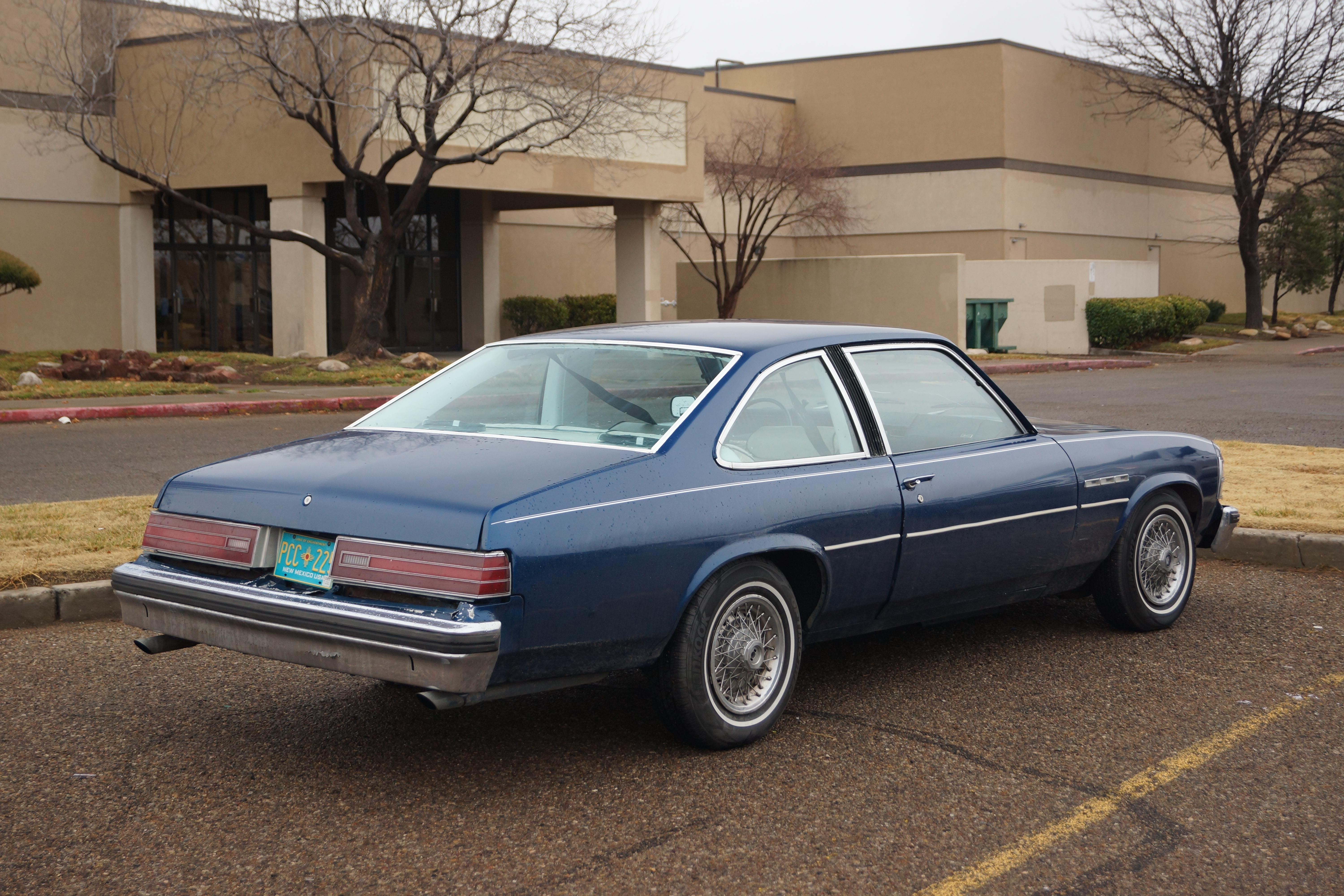 I went to New Mexico to visit a couple of friends that moved there. I spent the first night in Clovis, NM, then it was off to Roswell and the International UFO Museum and Research Center. All of my life I have heard bits and pieces of the stories of the alien crash site. The museum does an excellent job of presenting several points of view of the incident.